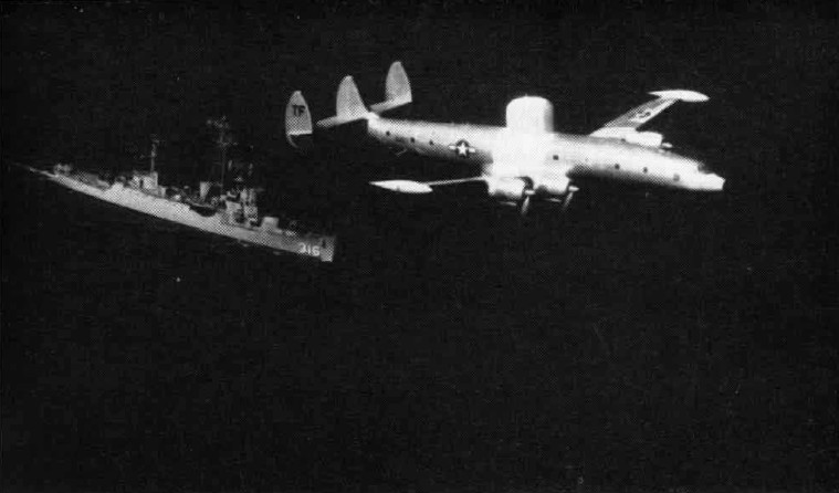 A U.S. Navy Lockheed WV-2 Warning Star (after 1962 EC-121K) flying over the radar picket escort destroyer USS Harveson (DER-316) in 1957. Both were the key elements of the "Pacific Barrier Forces" in the late 1950s.